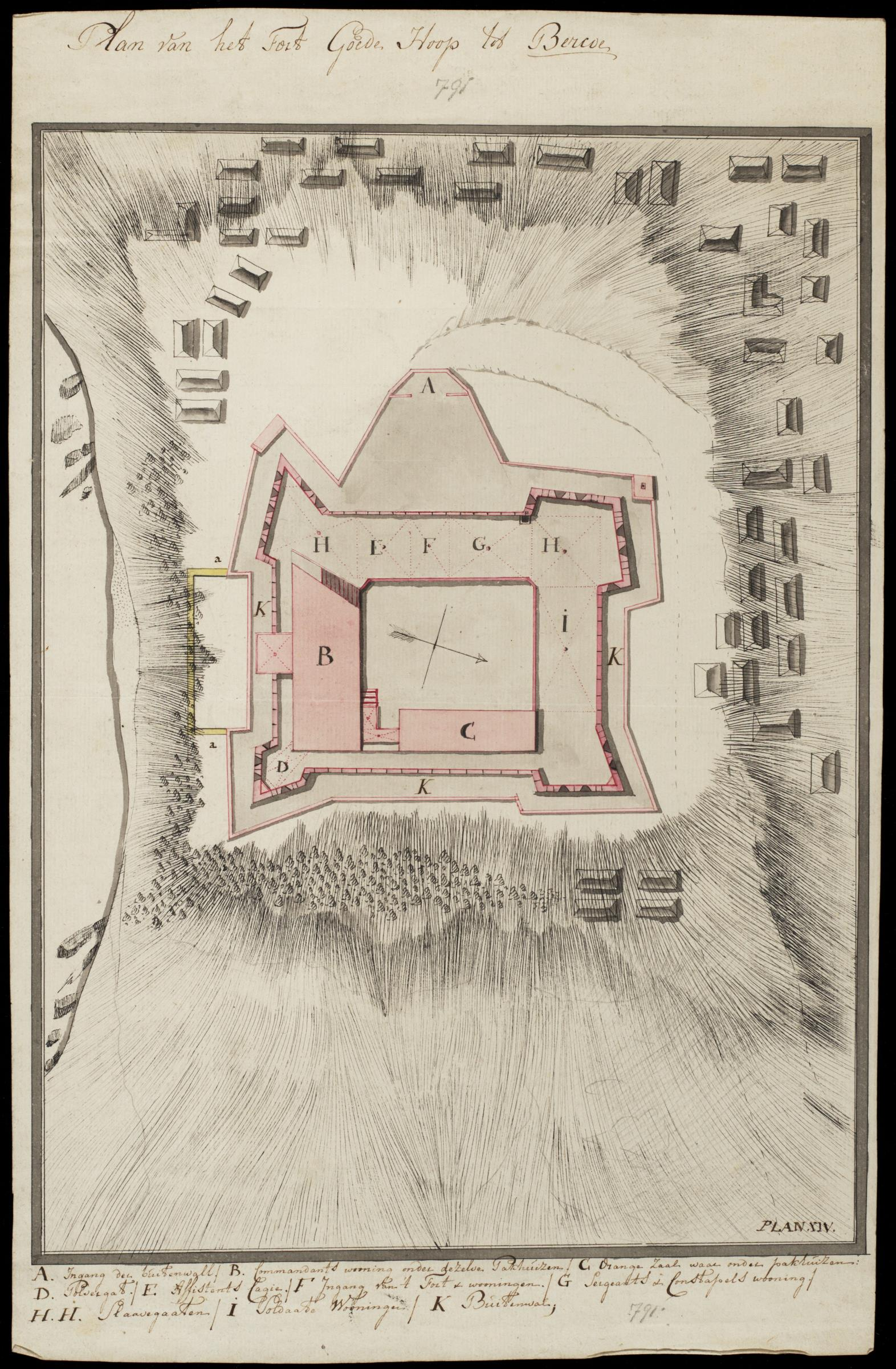 Floor plan of Fort Goede Hoop at Berku. Title in the Leupe catalogue (NA): Plan van genoemd fort. Plan van het Fort Goede Hoop tot Bercoe. Bottom right: Plan XIV. Centre top and bottom: 791 [in pencil]. Key: A-K. The description in the Leupe inventory pertains to VEL 792. Notes on reverse: No. 36 Het Fort de goede Hoop in Bercoe. Register 8, Deel 1, Folio 35, Portefeuille .. [inscribed on a blue label] / 484 [stamped in bold on a small label] / 17 B.